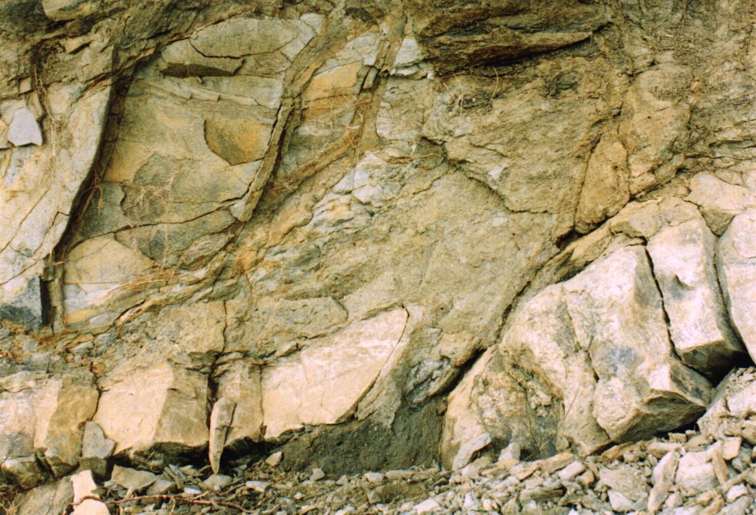 Clastic dike in sandstones. Polish Carpathians.